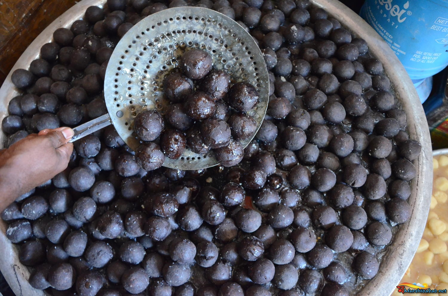 Famous "Chana-Bora" sweets of berhampur